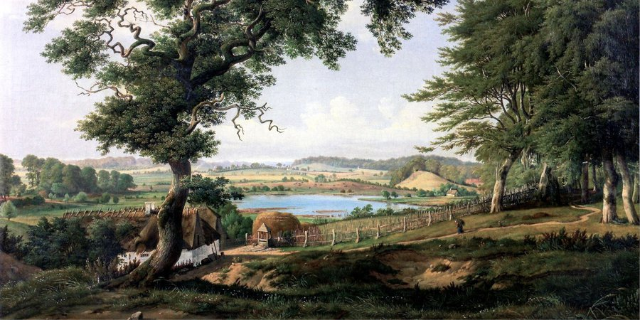 Painting of Rundforbi in Nærum North of Copenhagen, Denmark